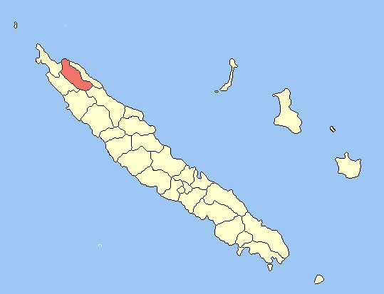 Created map myself.